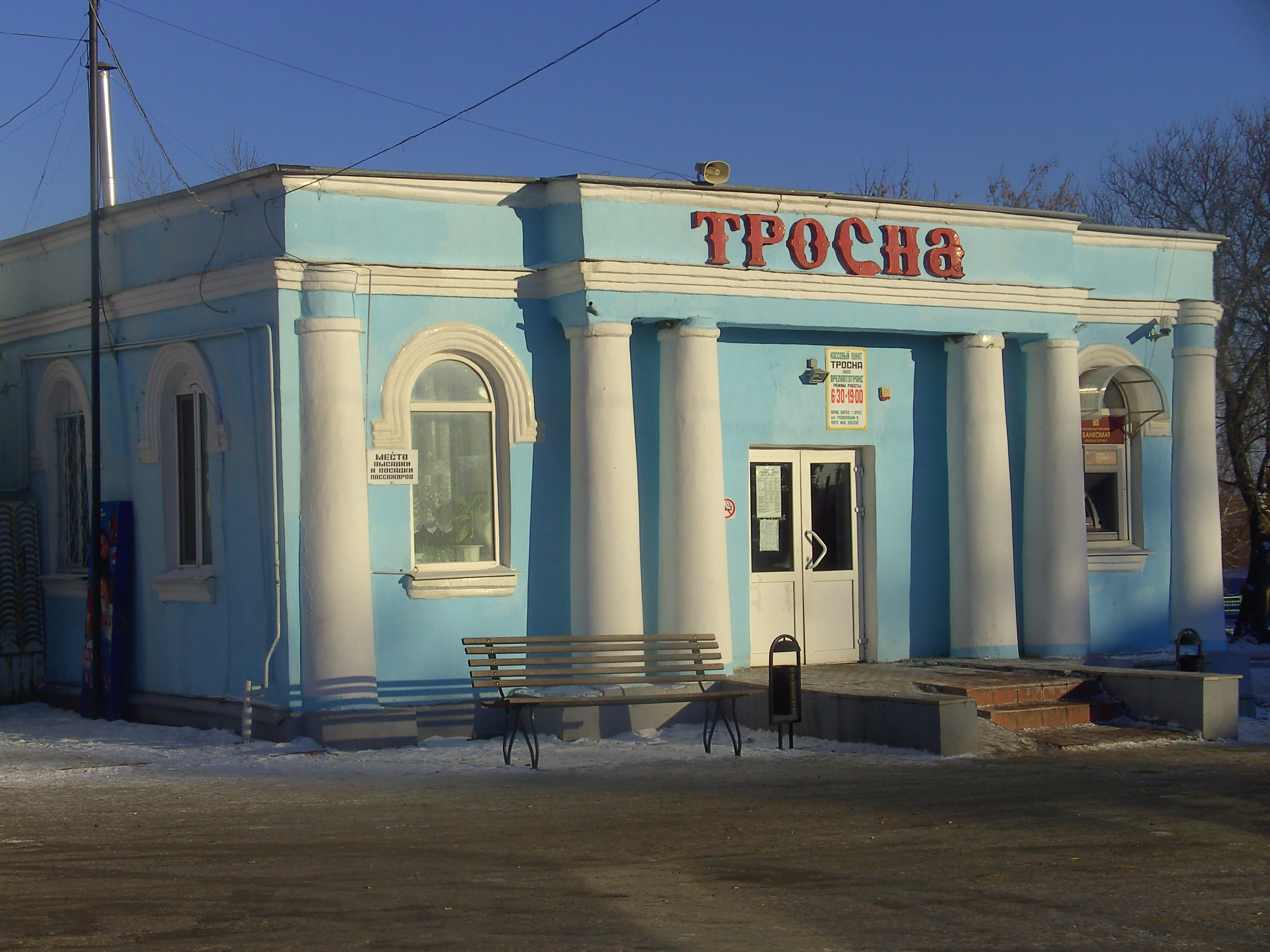 Trosna